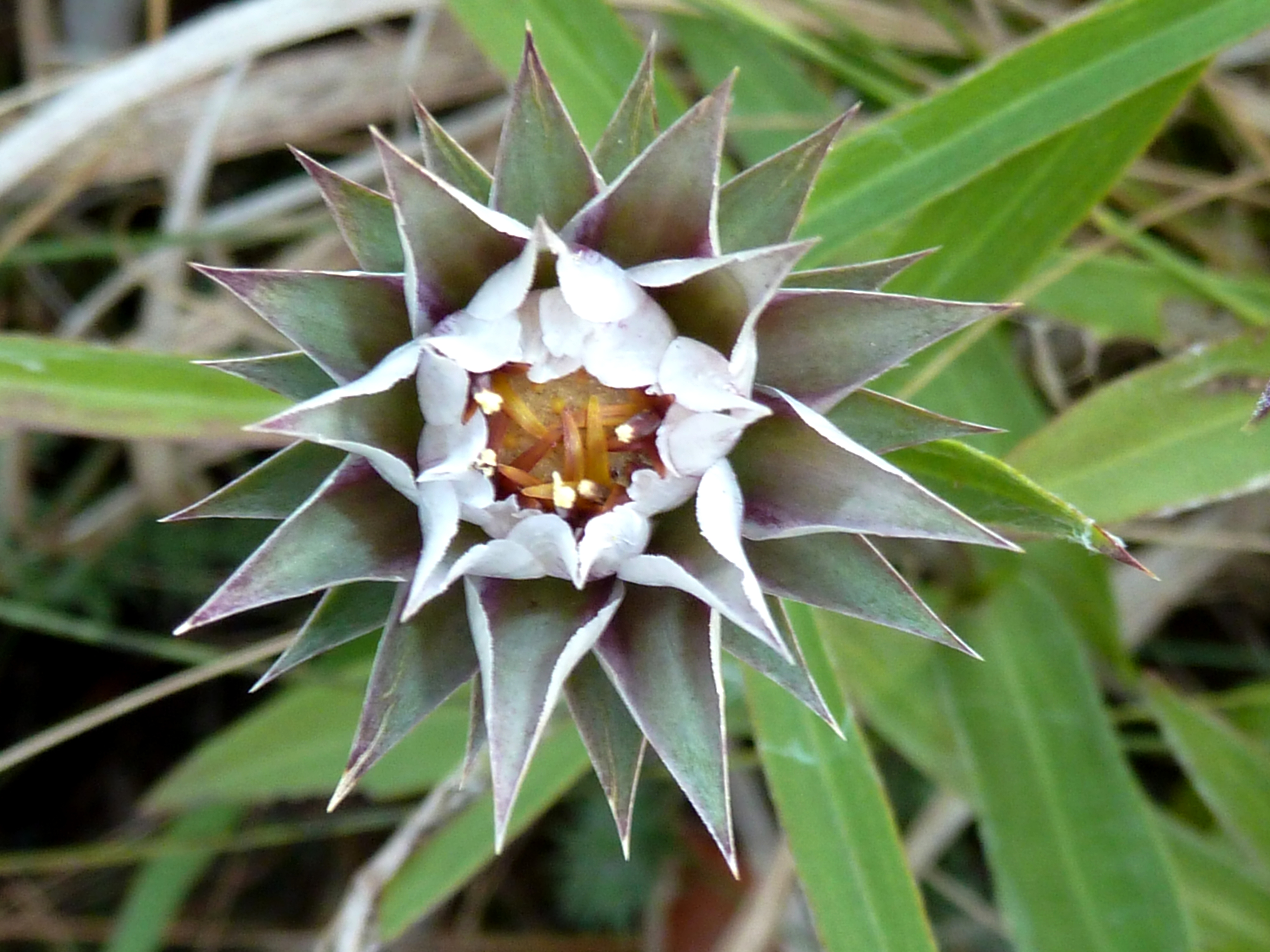 Doll's protea in the Krantzkloof Nature Reserve, KwaZulu-Natal